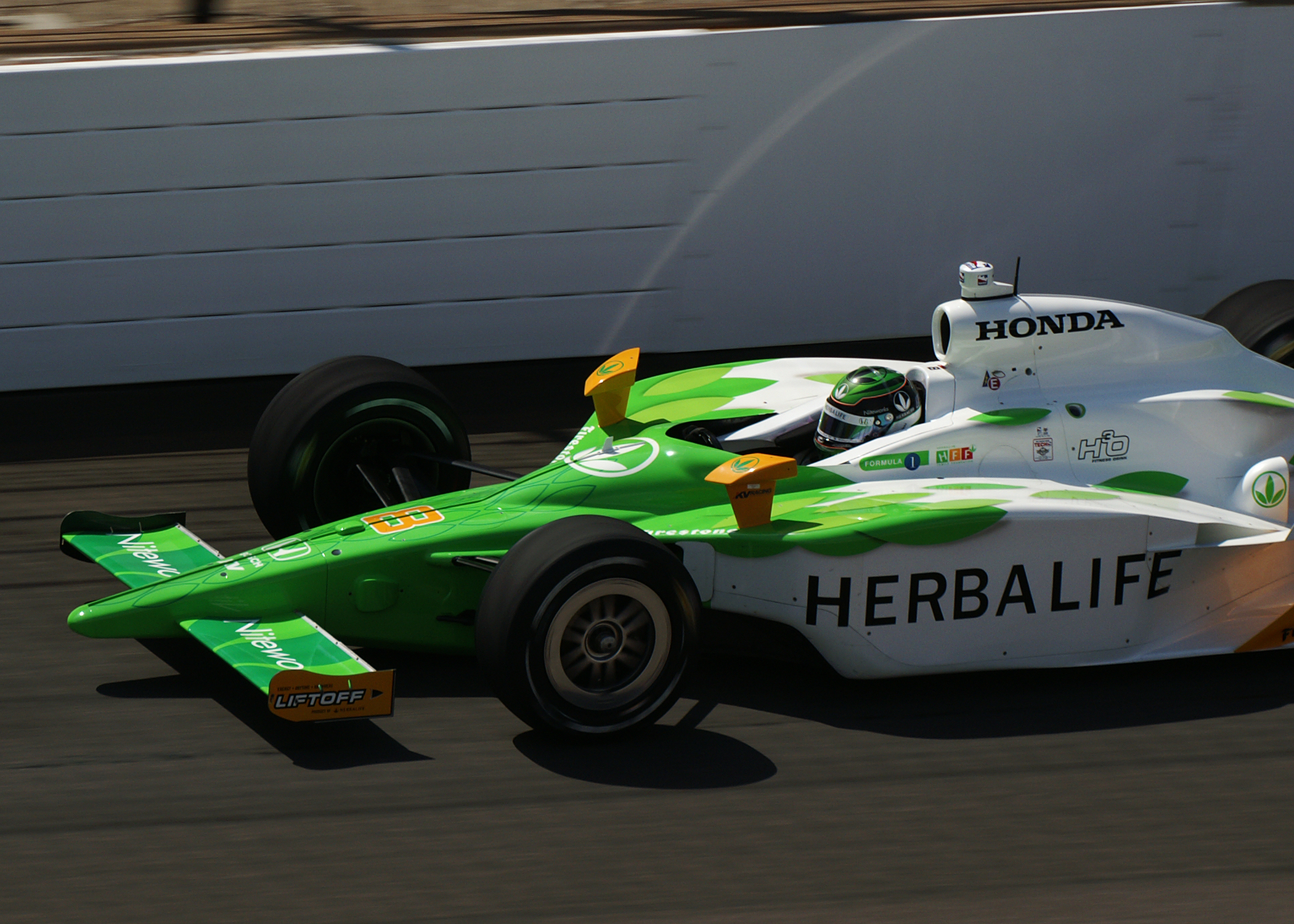 Townsend Bell during a practice session at the Indianapolis Motor Speedway.